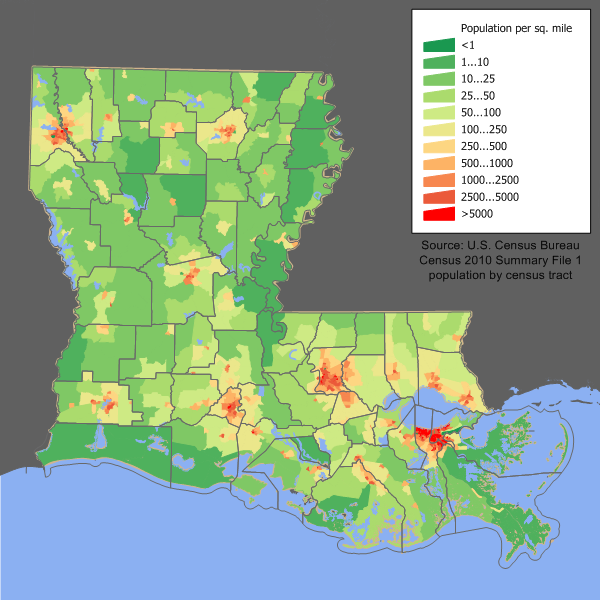 Category:U.S. State Population Maps Category:Louisiana maps Louisiana state population density map based on Census 2010 data. See the data lineage for a process description.